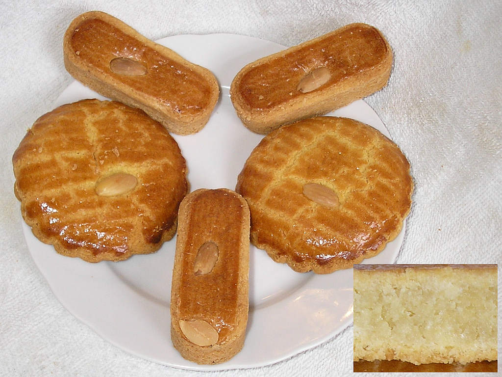 Dutch "Gevulde koeken" and "Kano's" (somewhat cake-like) - with close-up Location: Netherlands